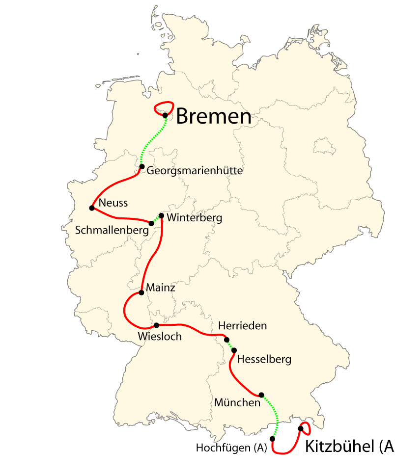 Deutschlandtour 2008